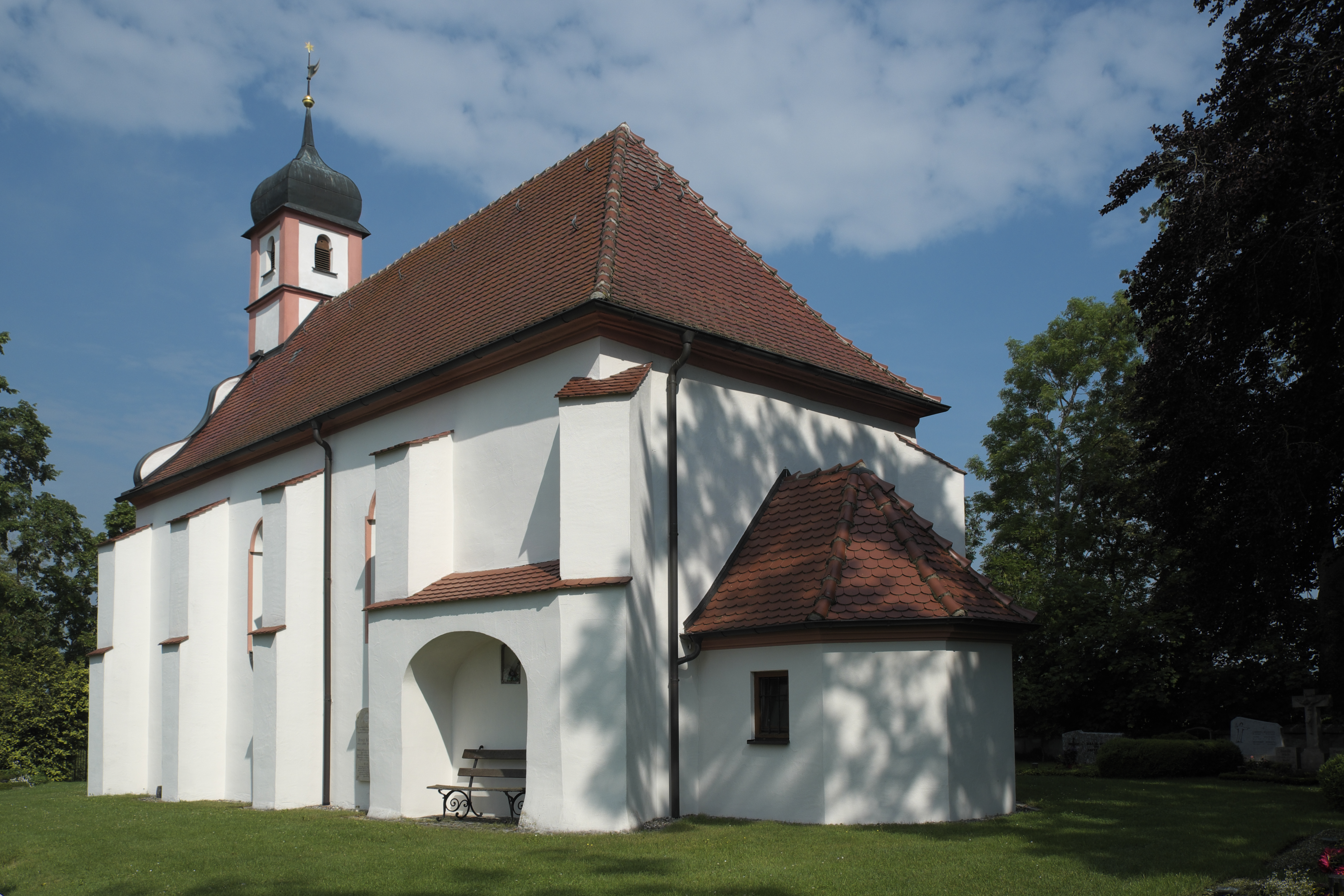 Kapelle St. Georg (Kreuzkapelle), ehemals katholische Pfarrkirche in Bachhagel, einer Gemeinde im Landkreis Dillingen an der Donau (Bayern), Langhaus von 1692